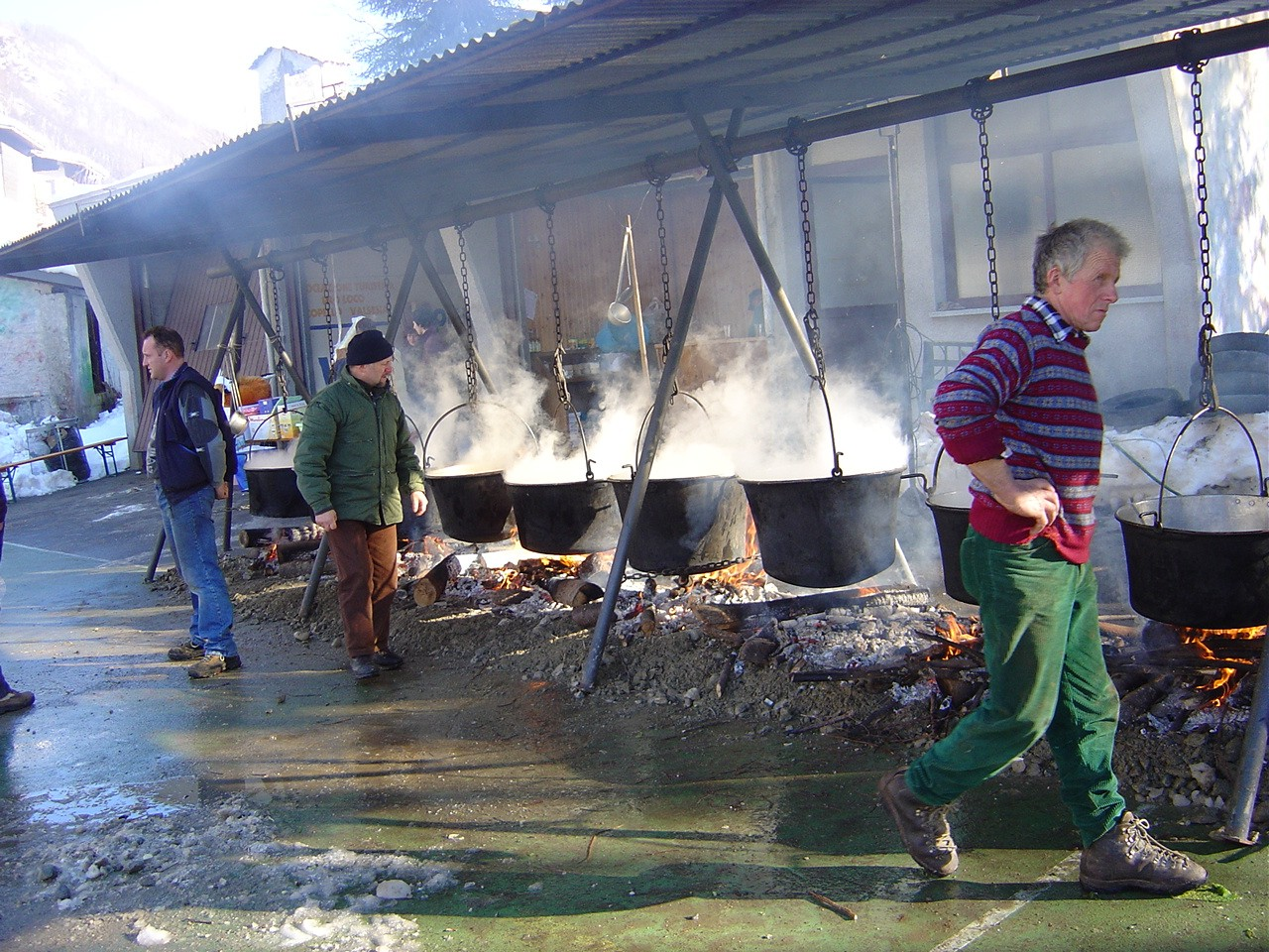 Scopello - Piemont-Italy February 2003 Each year, during the February carnival, traditional pasta and soap, named Paniccia, was offered to poor people. Today it is shared out to all the inheritants.